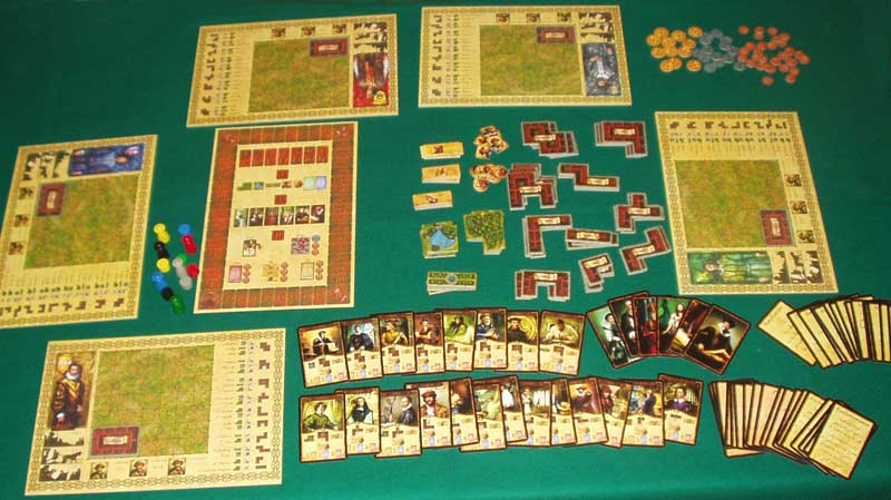 Princes of Florence boardgame material